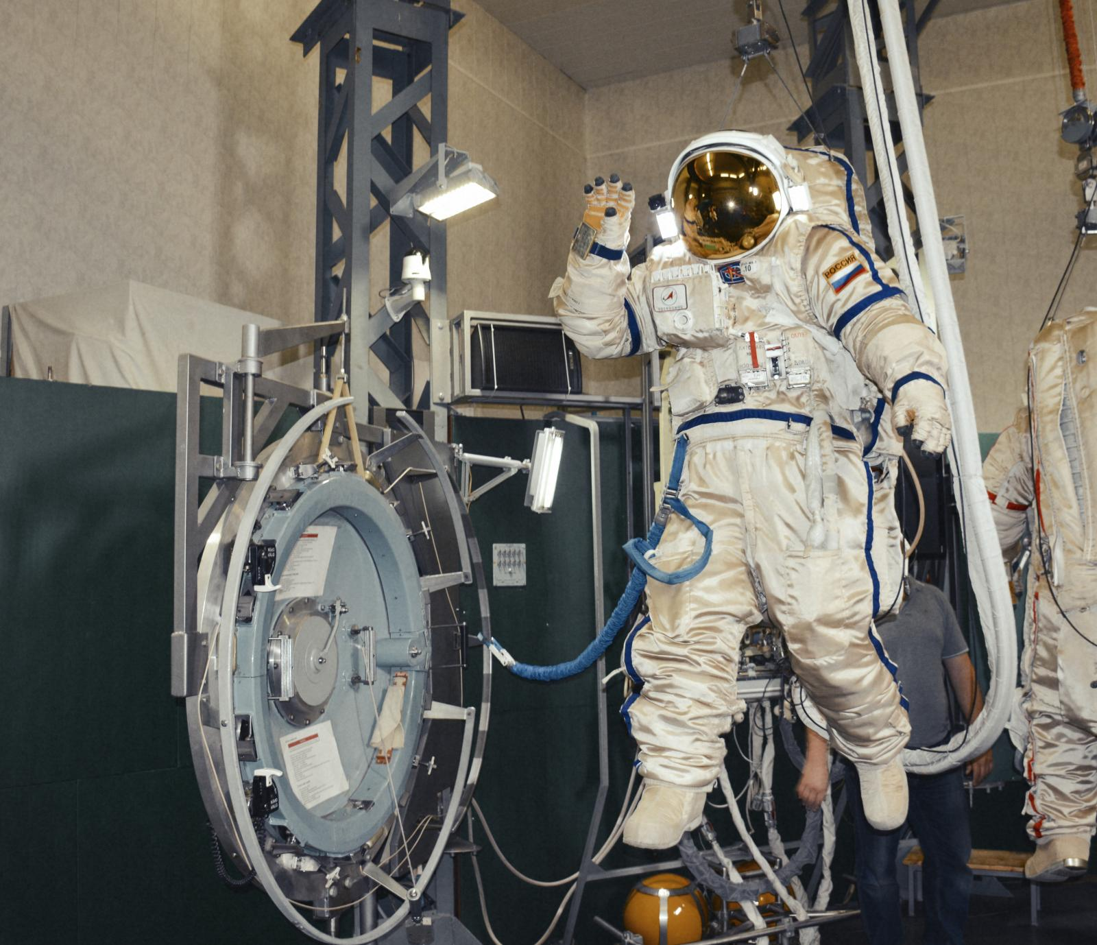 Cosmonaut Training